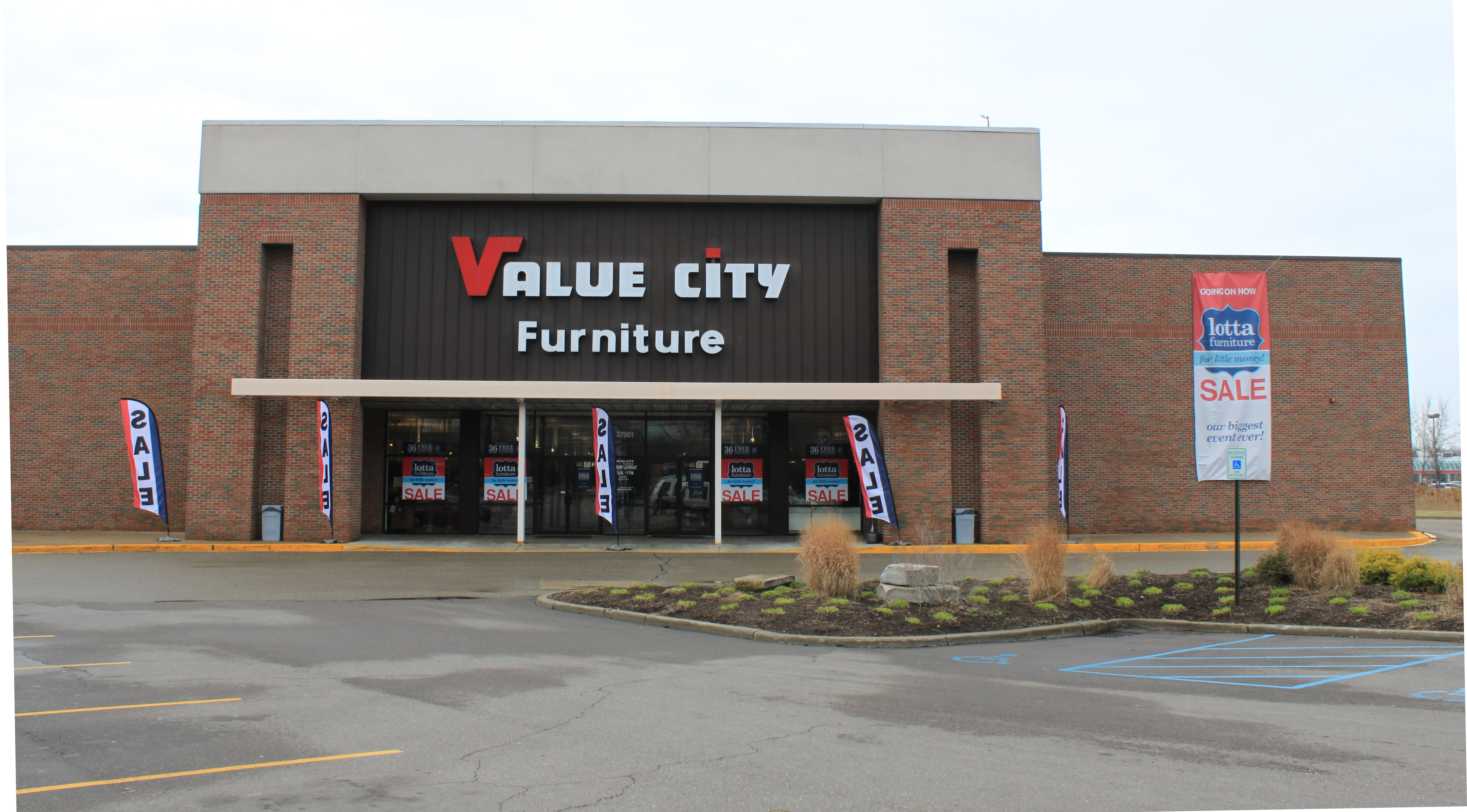 Value City furniture store, 37001 Warren Road, Westland, Michigan.